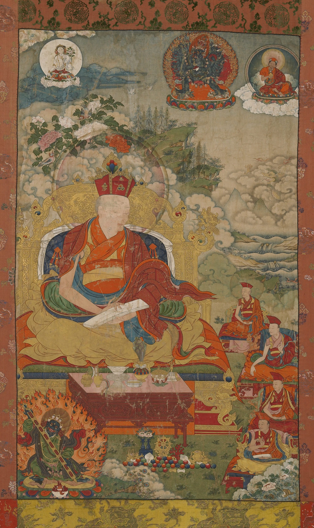 Situ Panchen as the Great Transmitter of his Lineage. ca. 1760, Rubin Museum of Art, NY